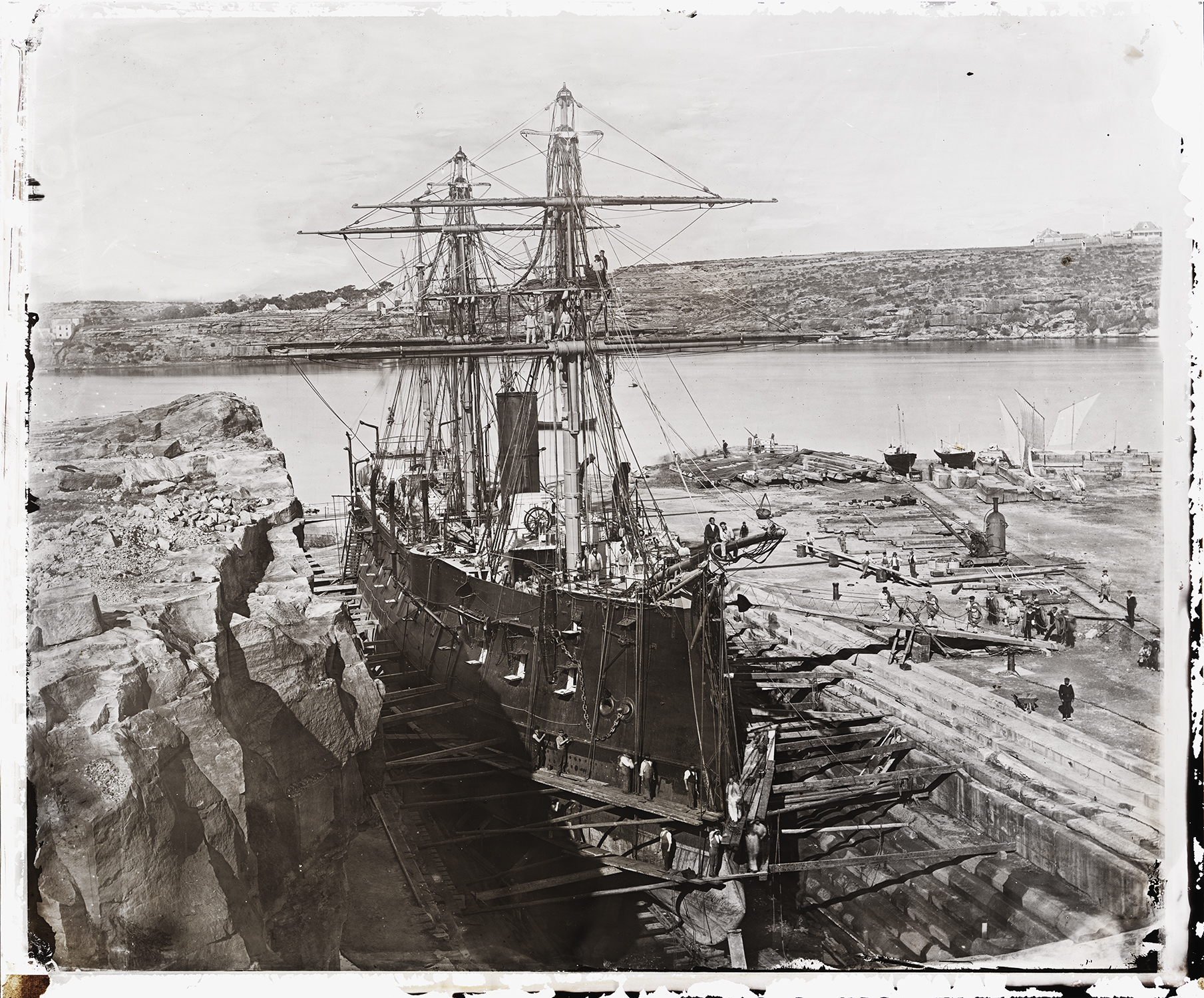 French warship 'Atalante', Fitzroy Dock, Sydney, 1873, Beaufoy Merlin, from glass plate negative, State Library of New South Wales, ON 4 Box 72 No Q